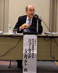 James Zumwalt, Charge d'Affaires, addressed in Tōkyō Metropolis, on June 20, 2009.